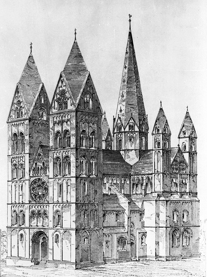 The Limburger Dome, the south side, seen from southwest, drawing from the book "Die kirchliche Baukunst des Abendlandes", Stuttgart 1884-1901, Tafel 224, #2